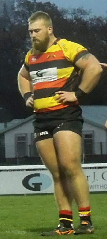 Cameron Holenstein, RSA rugby player '17